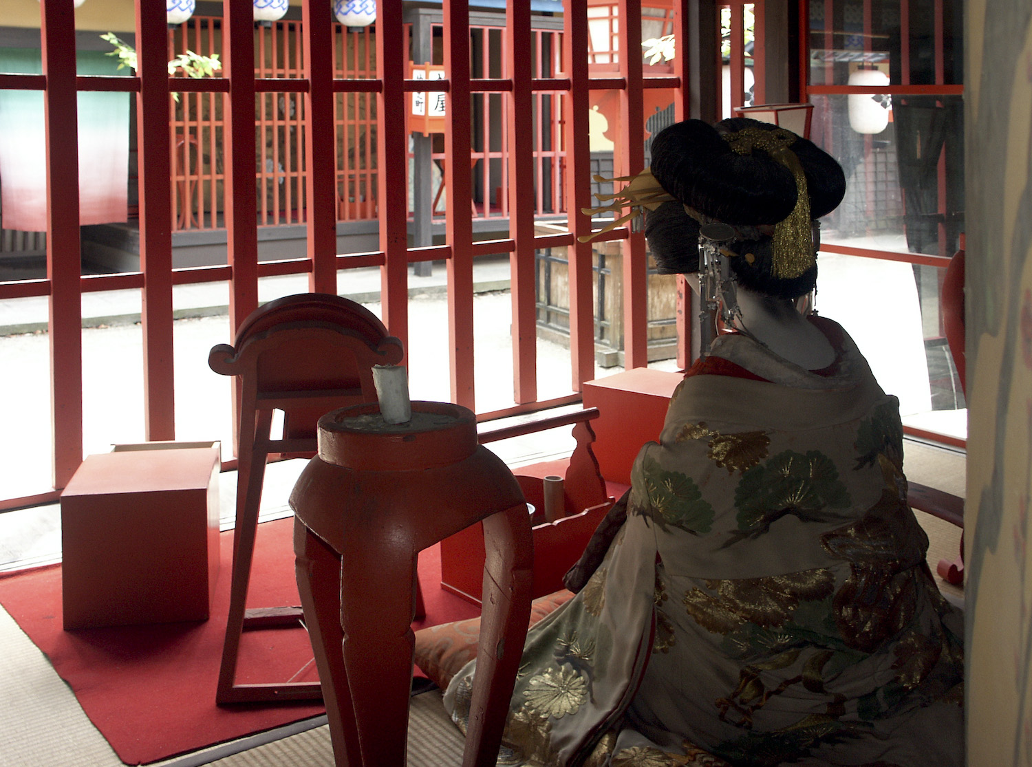 Toei Uzumasa Studios, Kyoto, Japan I contribute my rights in the file to the public domain. People and organizations retain rights to images in the file. Yoshiwara